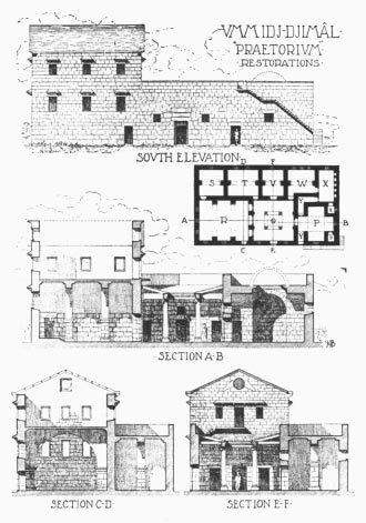 Umm Idj-Djimal, the Practorium, plan and sections